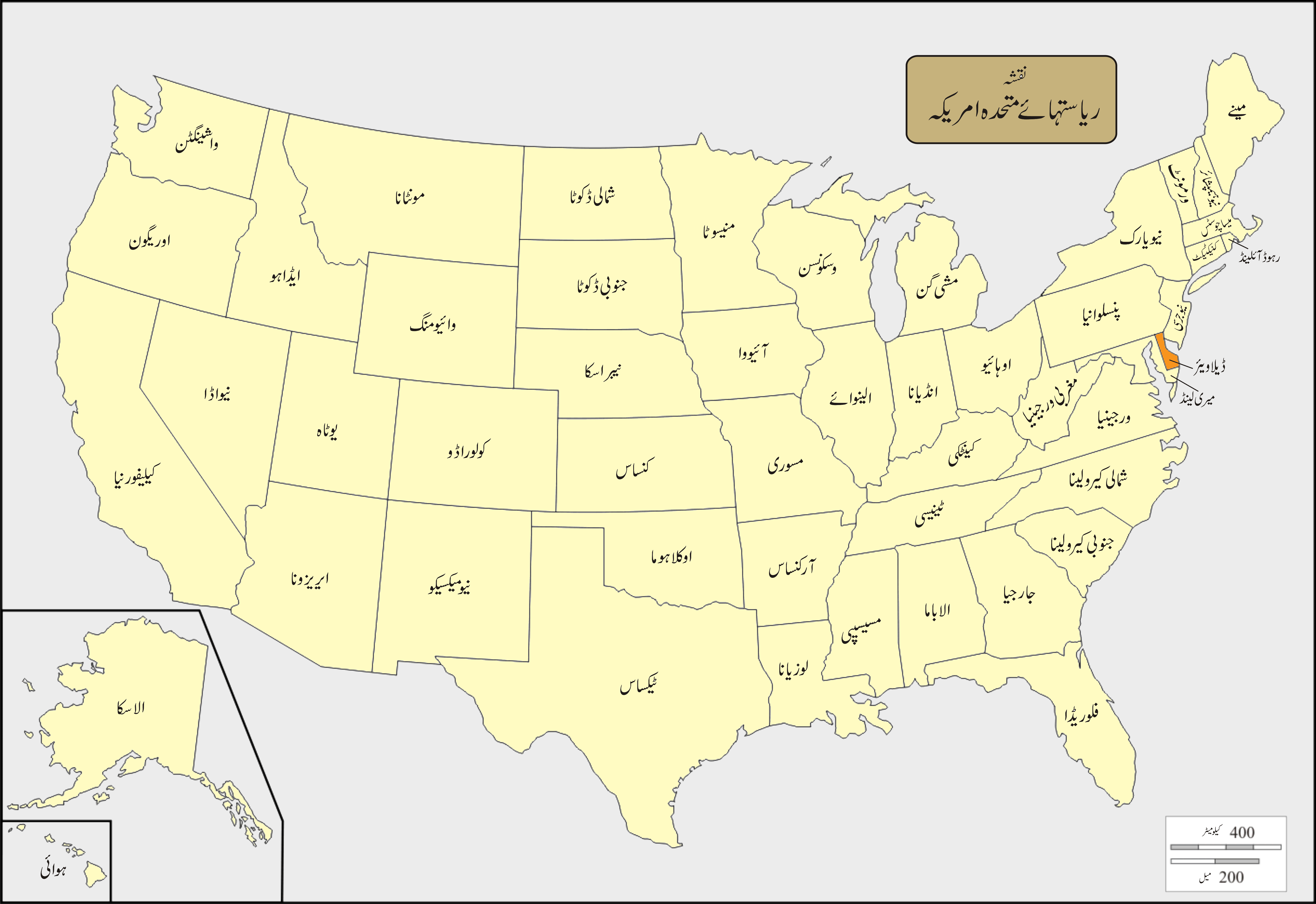 USA Names Delaware